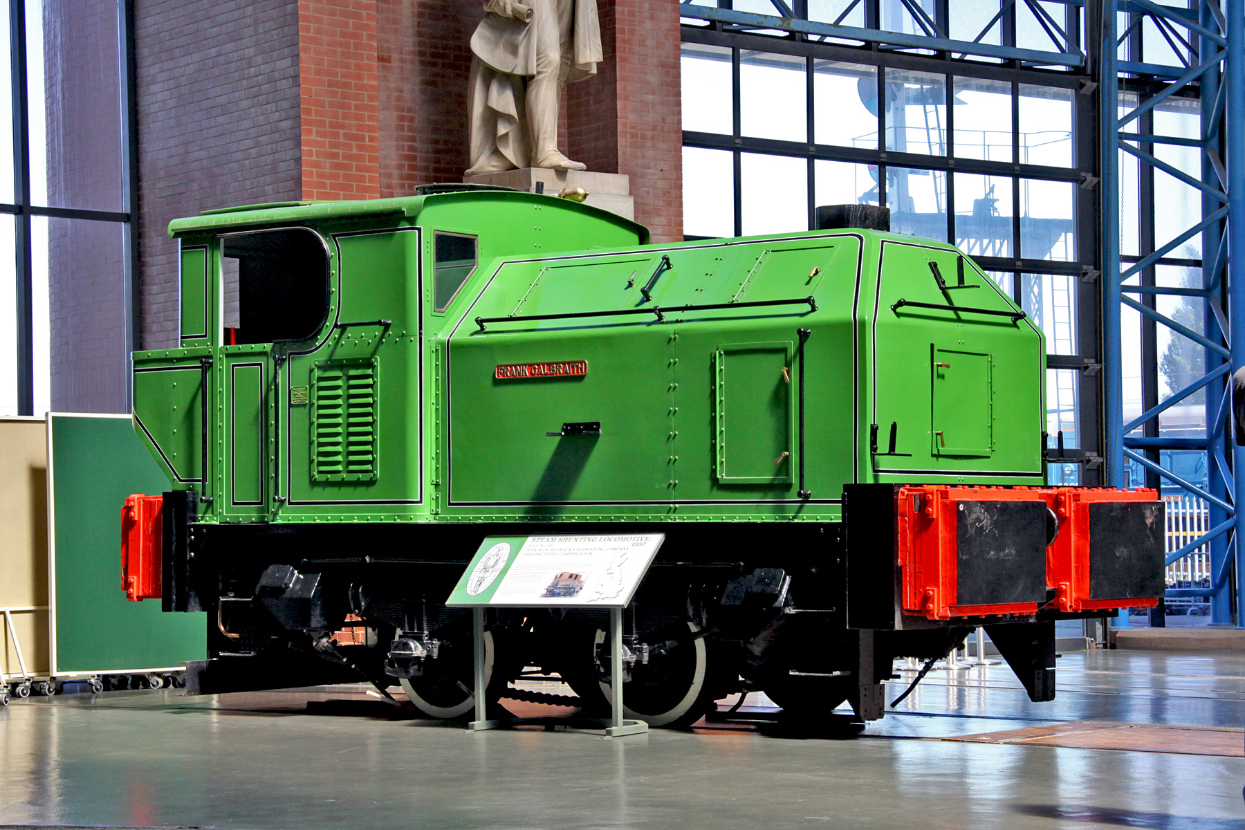 Teesside Bridge and Engineering Company Sentinel 4wVBTG locomotive number Teesside Number 5 FRANK GALBRAITH (works number 9629 of 1957) on display in the great hall at the National Railway Museum, York. Monday 1st June 2009